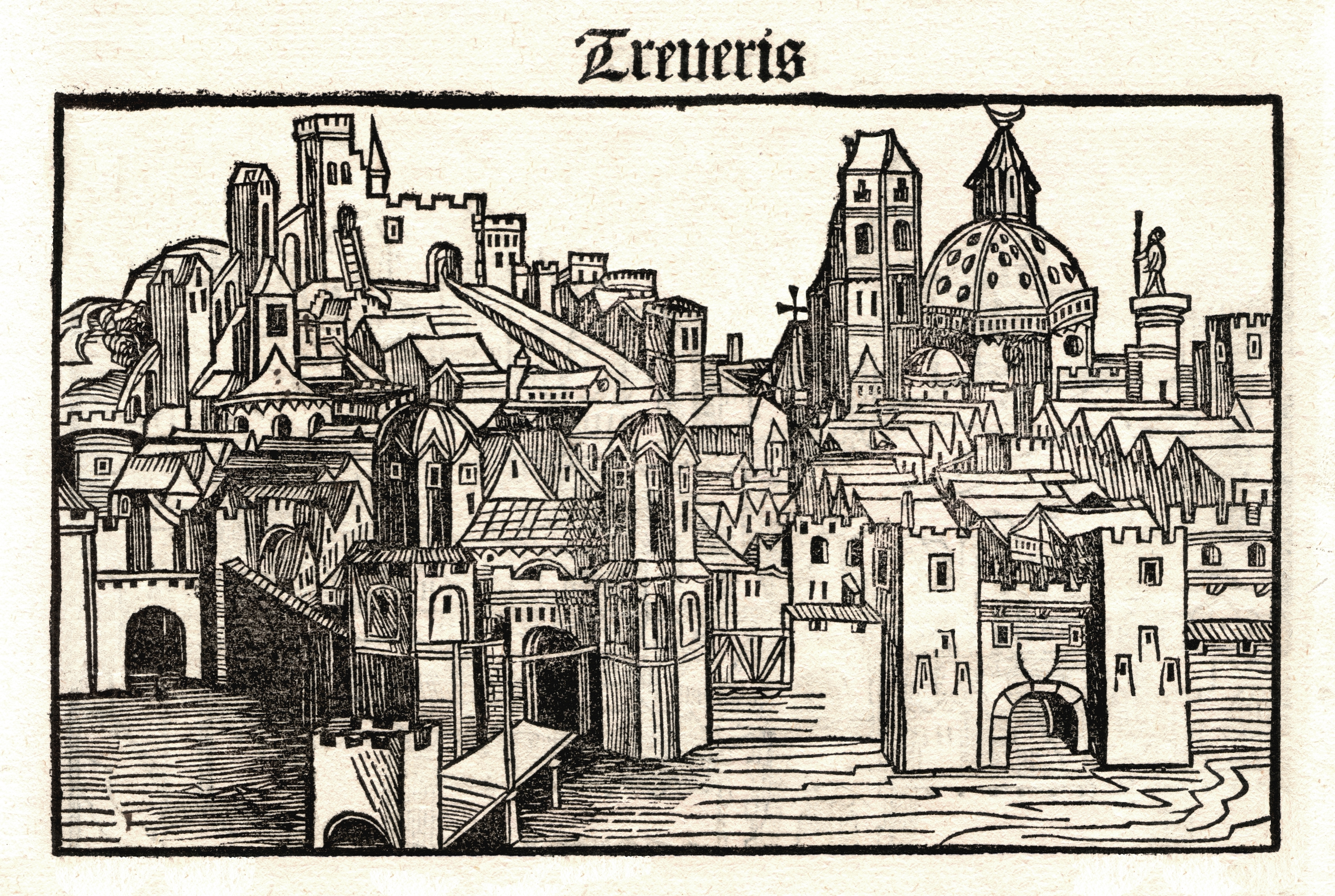 View of Trier in Schedel's World History, woodcut by Michael Wolgemut, printed in the very rare pirated edition of 1497 by Johann Schönsperger in Augsburg. The Other Nuremberg Chronicle